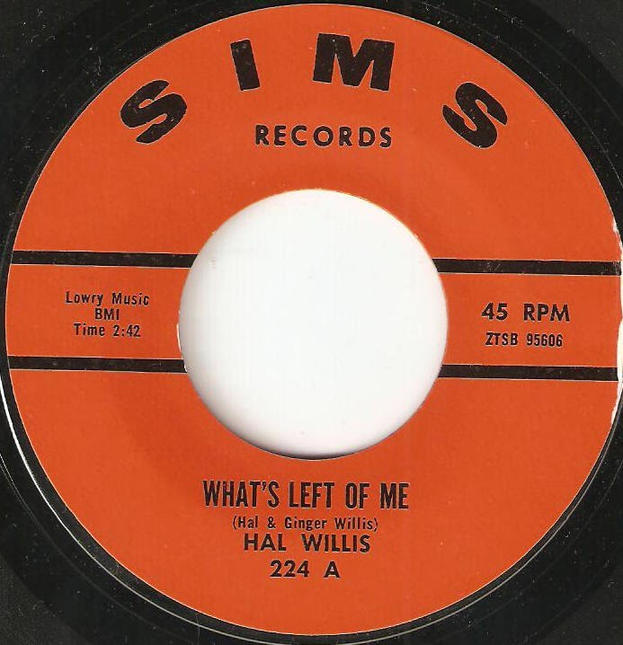 What's Left of Me by Hal Willis, Sims 1965.